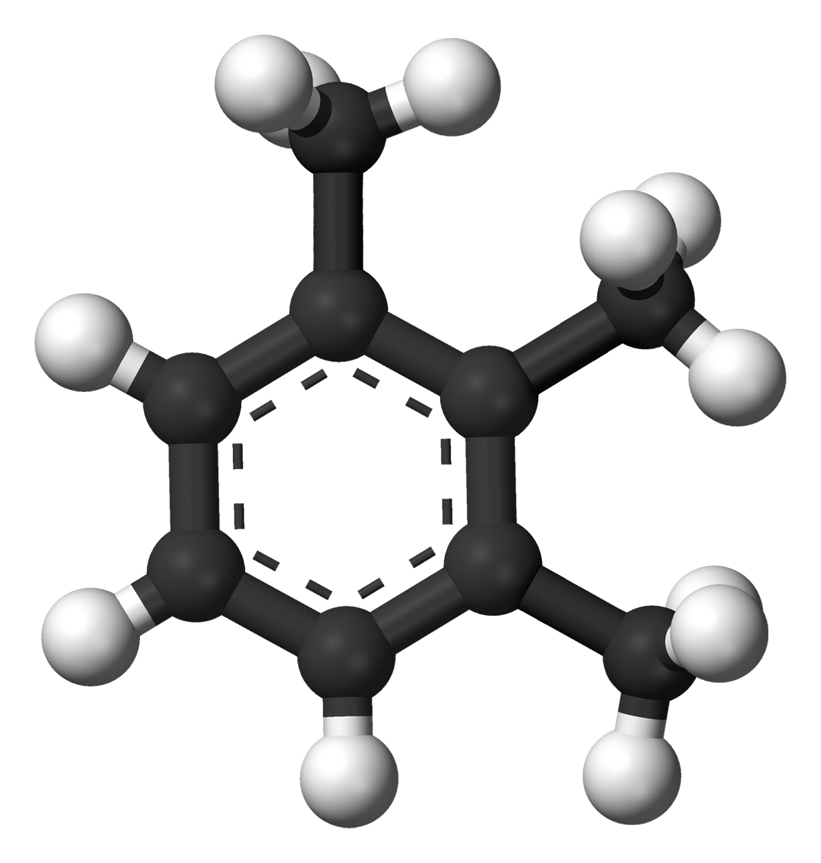 Ball-and-stick model of the 1,2,3-Trimethylbenzene molecule, one of the three position isomers of trimethylbenzene, an aromatic hydrocarbon.